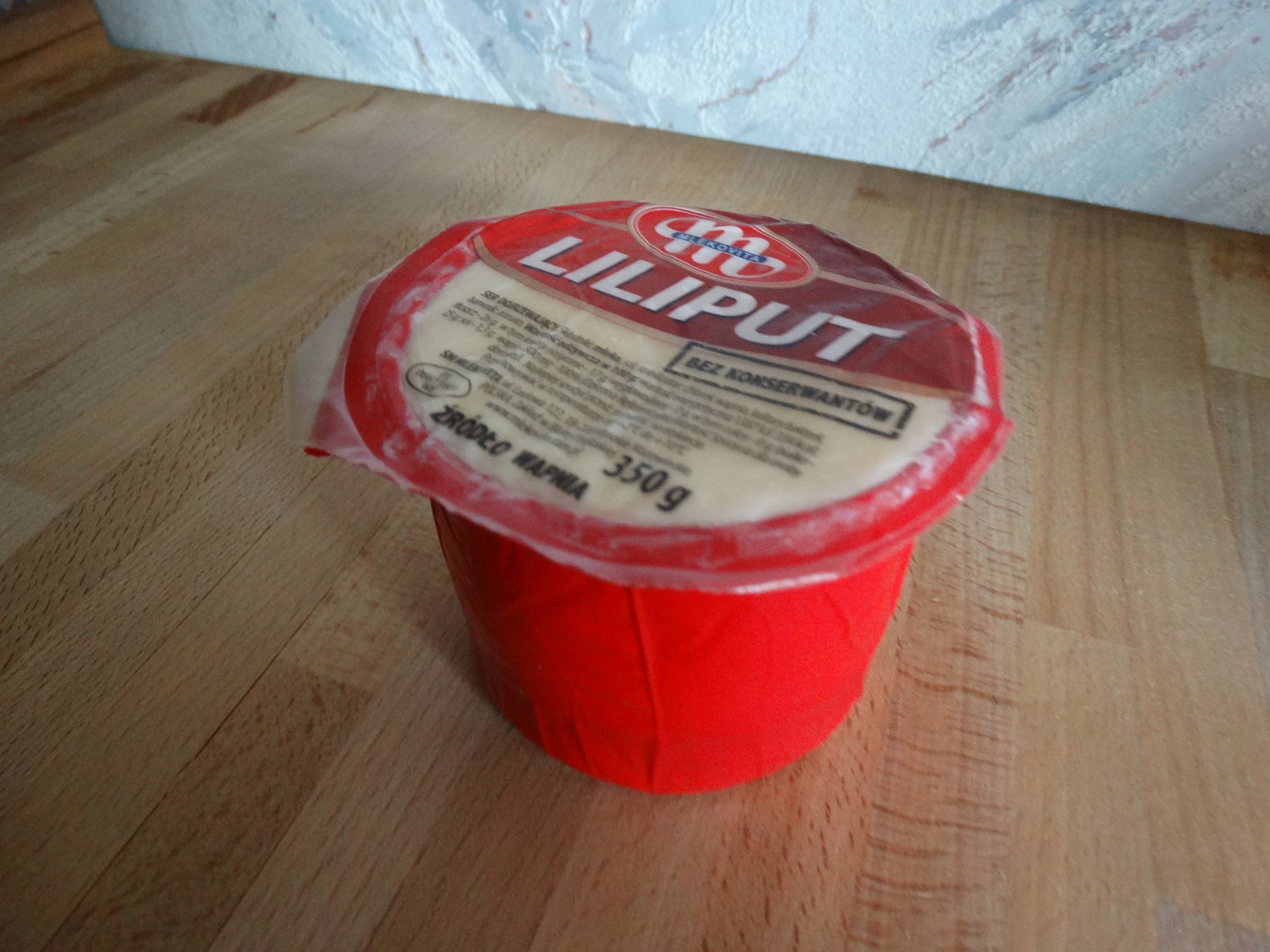 Liliput, Polish cheese made by Mlekovita